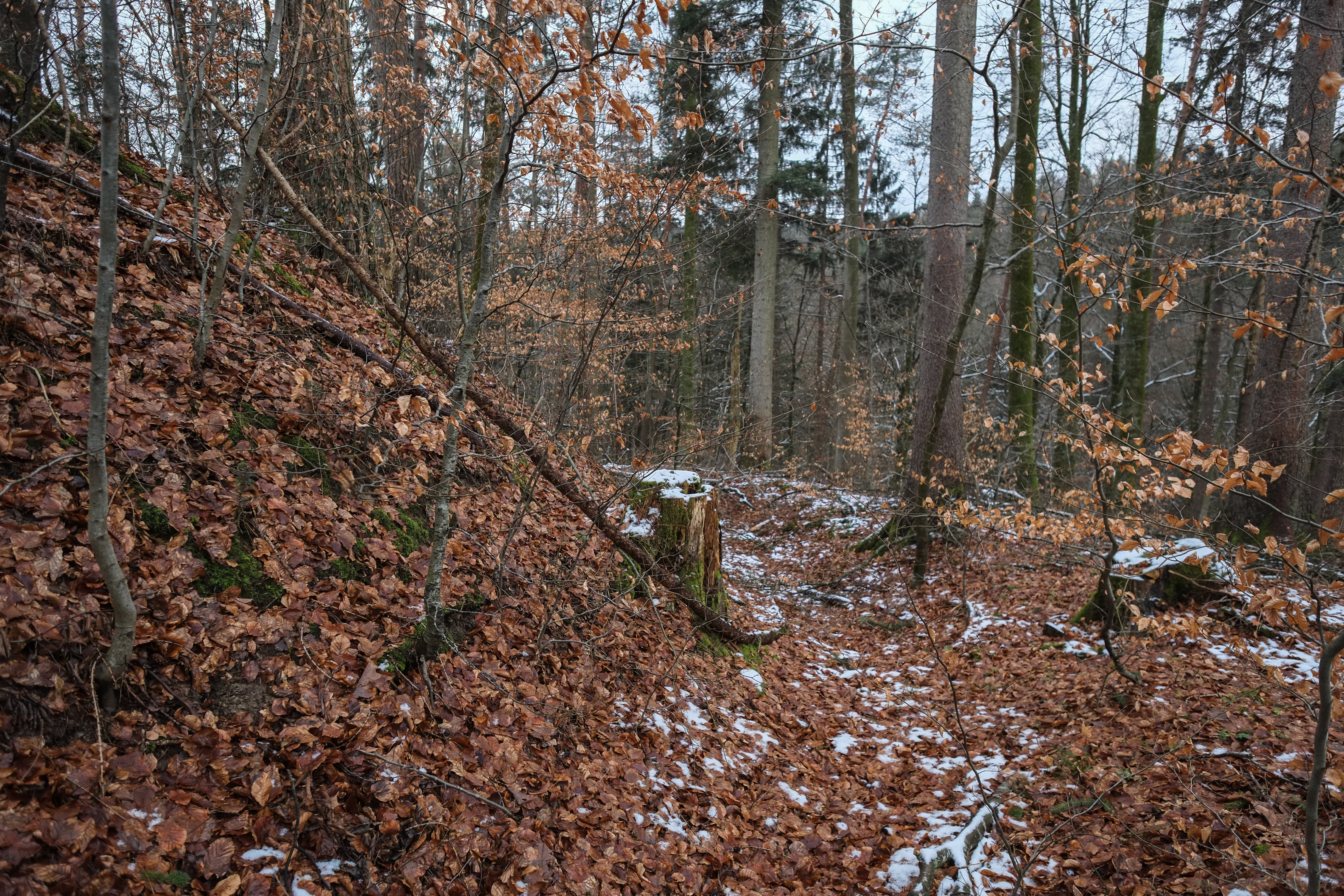 Remains of the lost castle Burg Bermatingen near Bermatingen, county Bodenseekreis, Baden Wurttemberg, Germany